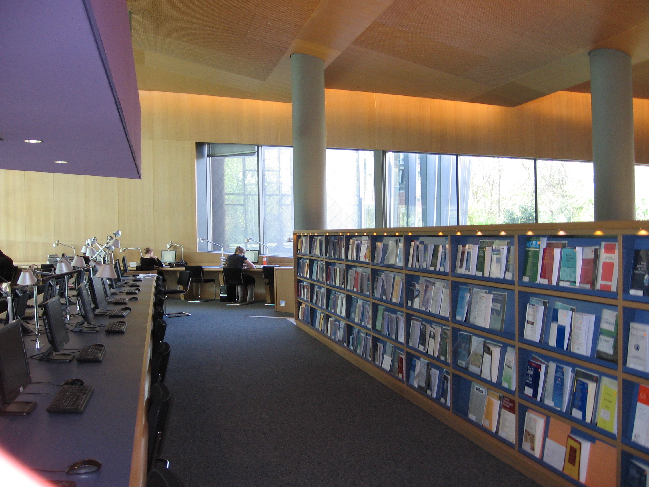 Peace Palace Library, 2014